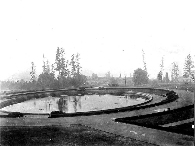 From John Cobb field notebook: "Frosh" pond, campus, Univ. of Wash. 1919 Name later changed to Drumheller Fountain Subjects (LCTGM): Lakes & ponds--Washington (State)--Seattle Subjects (LCSH): Frosh Pond (Seattle, Wash.); Reservoirs--Washington (State)--Seattle; University of Washington